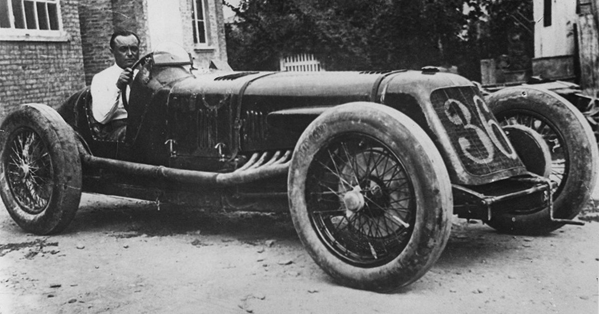 Baconin Borzacchini in a Maserati Tipo V4. Not sure when/where (entry #36), but the V4 debuted at Monza on 15 September 1929, and Baconin set a land speed record in the brand new Maserati Tipo V4 on 28 September 1929, driving 247,933 km/h over 10 kilometres.